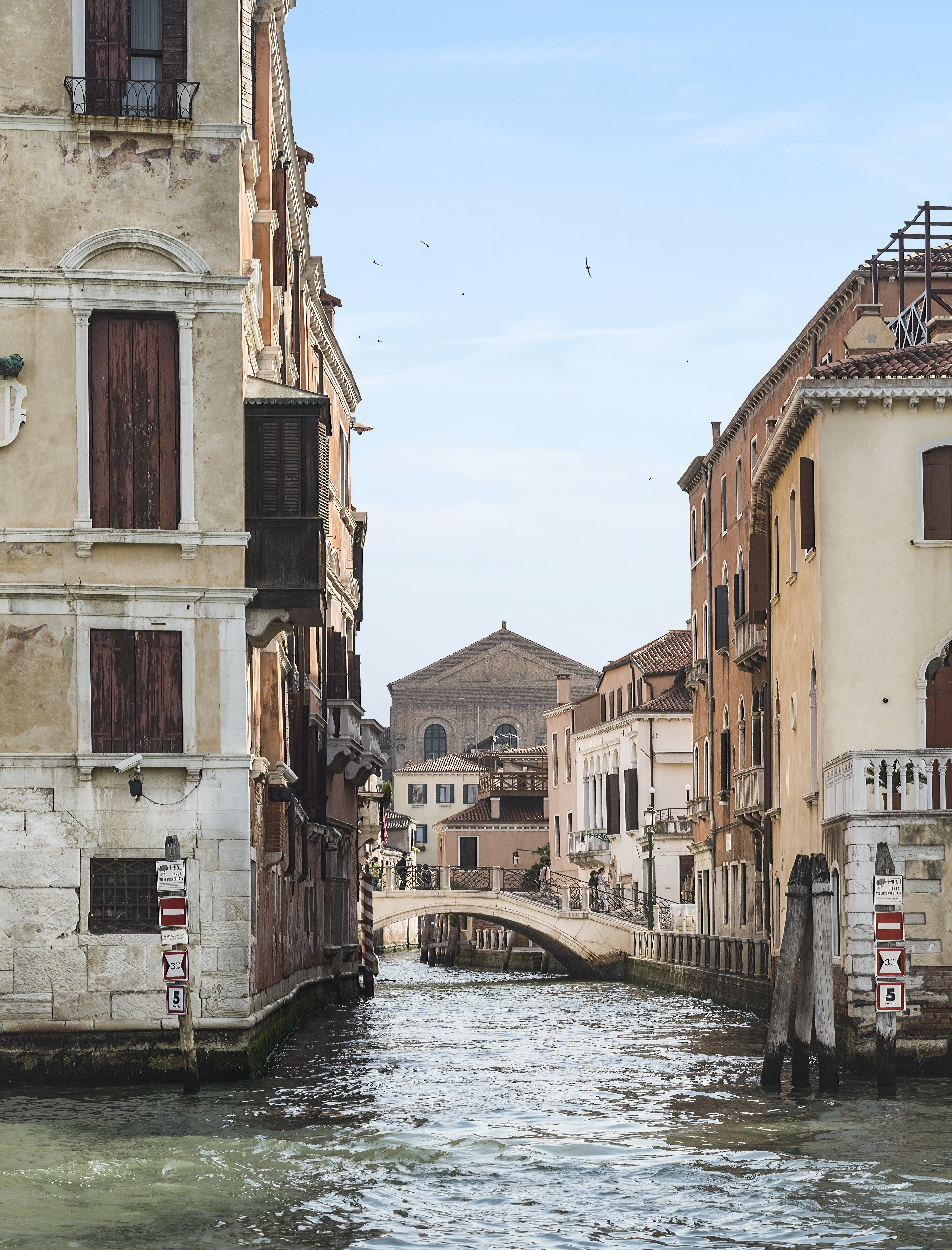 The Rio di Noale in Venice, seen from the Grand Canal.